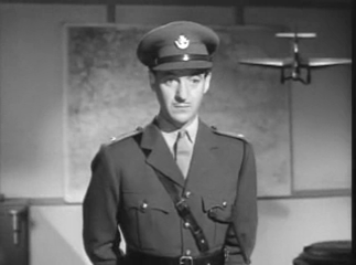 David Niven in The Way Ahead, film by Carol Reed (1944)